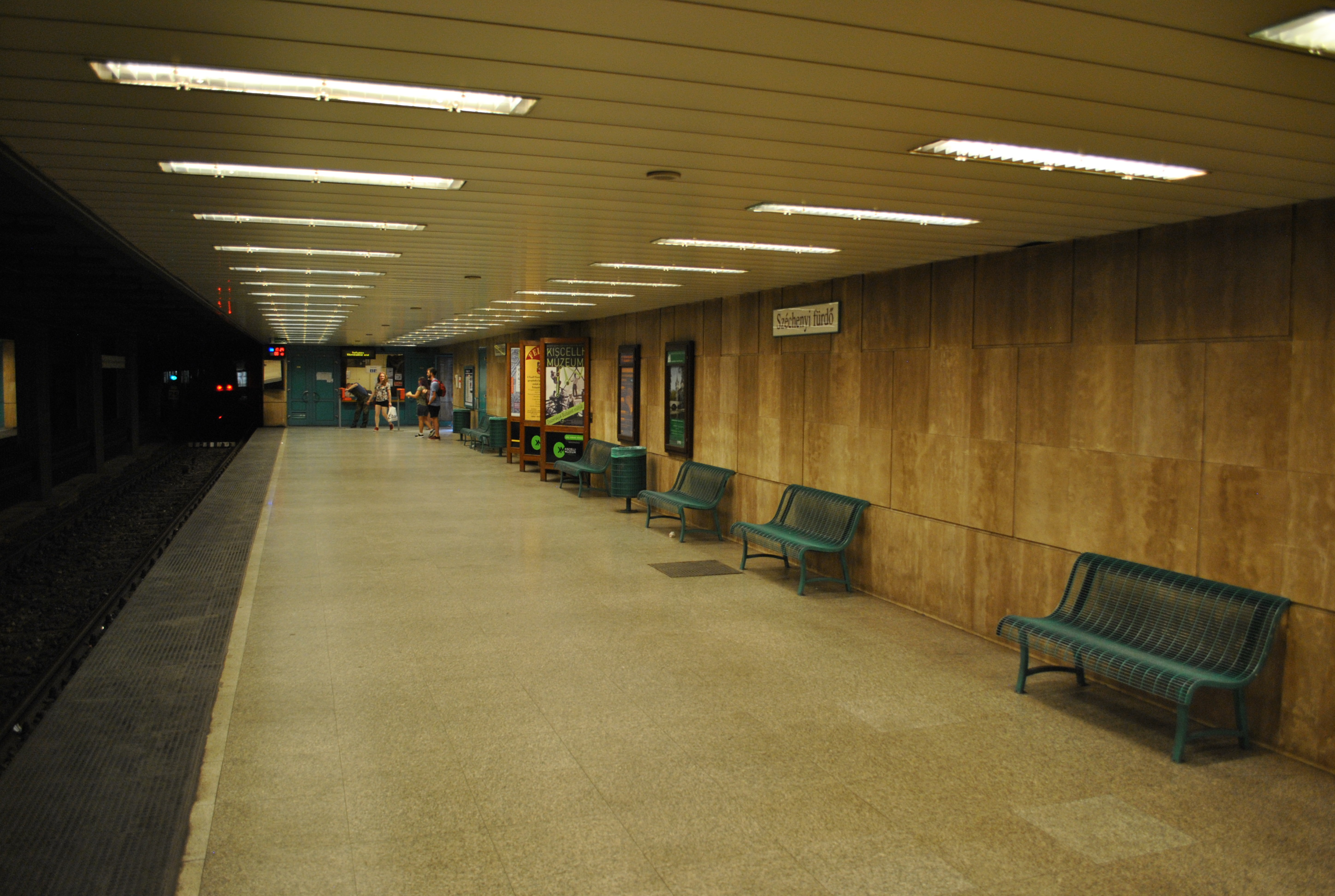 Inside the station Széchenyi fürdő, on Budapest Metro system